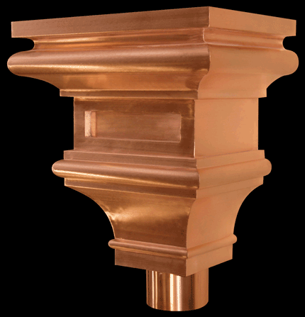 Custom Copper Leader Head (Hopper Head-Conductor Head-Collector Box-Scupper Box)